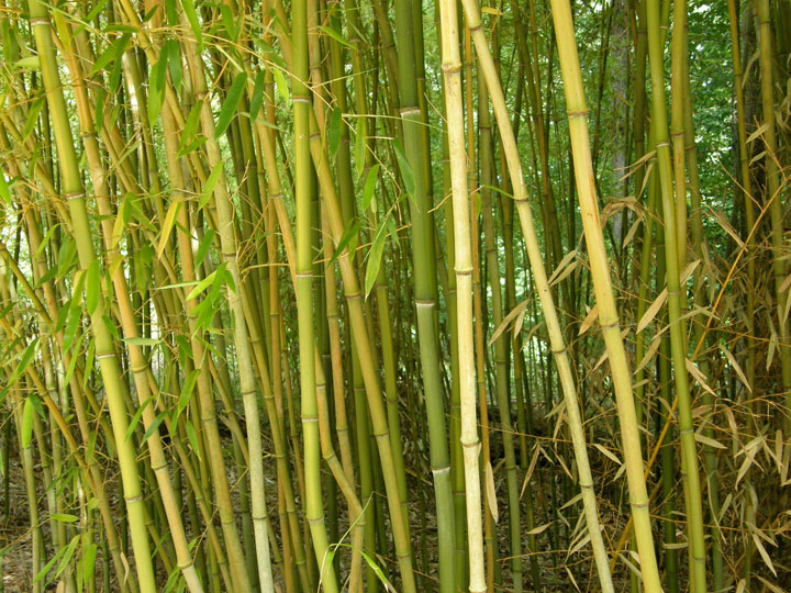 Bamboo in Tennessee.